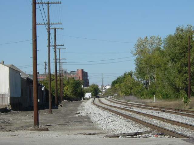 RR tracks in Old Louisville LOUKY